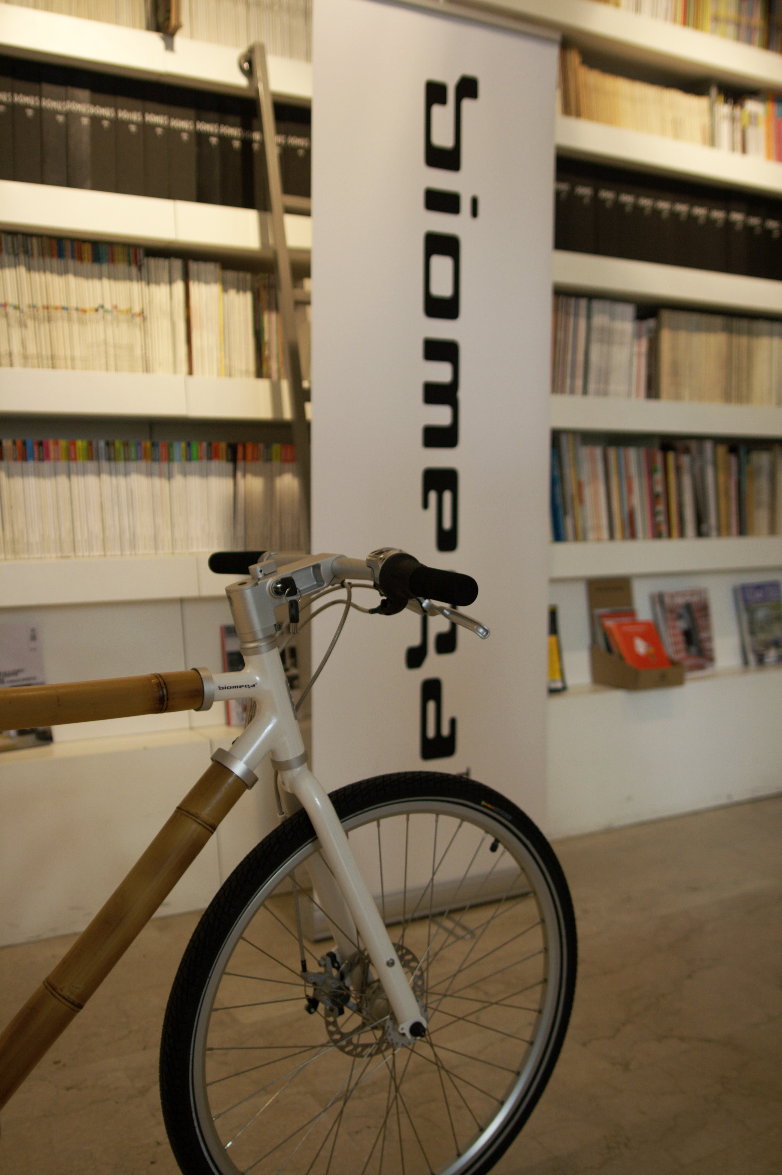 Milano design week 2009 / Biomega Bamboo Bike / Made in Finland